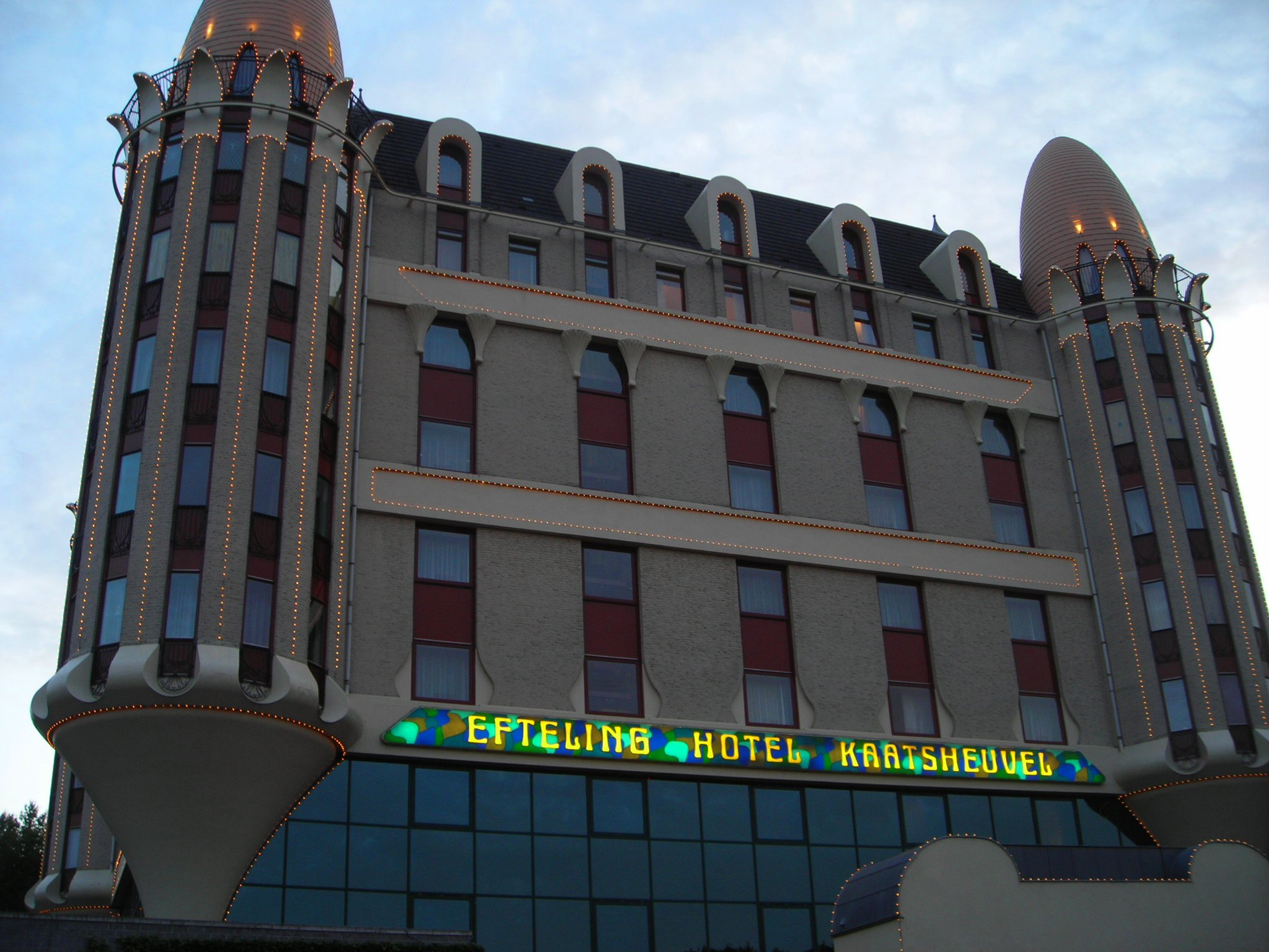 Efteling Hotel